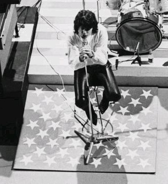 Jim Morrison, lead singer of The Doors, performing at Copenhagen in 1968.